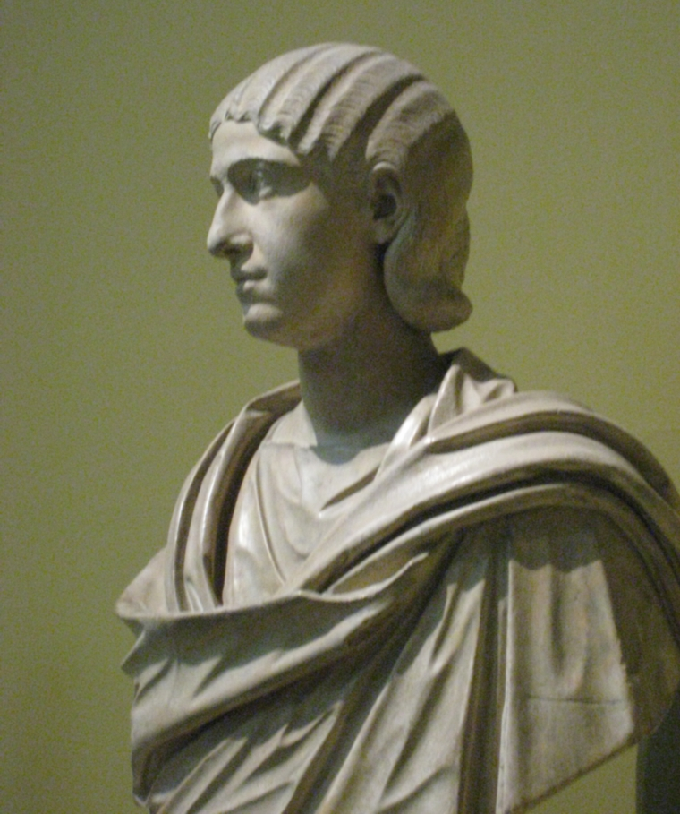 Julia Avita Mamaea. Cast in Pushkin Museum after original in British museum